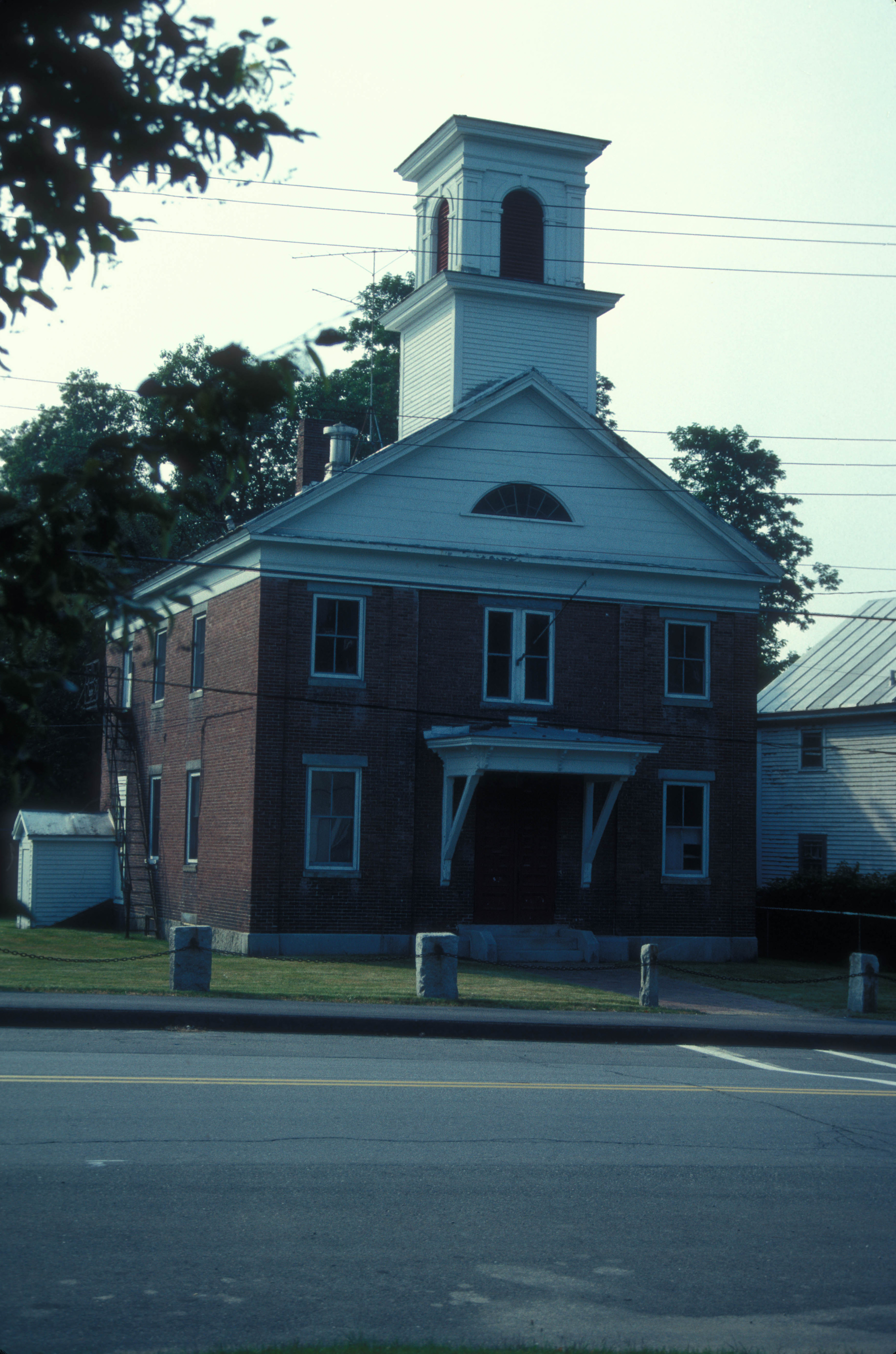 1840 Greek Revival of early academy which started in 1814 as the New Caanan Academy but changed to Bloomfield in 1817.